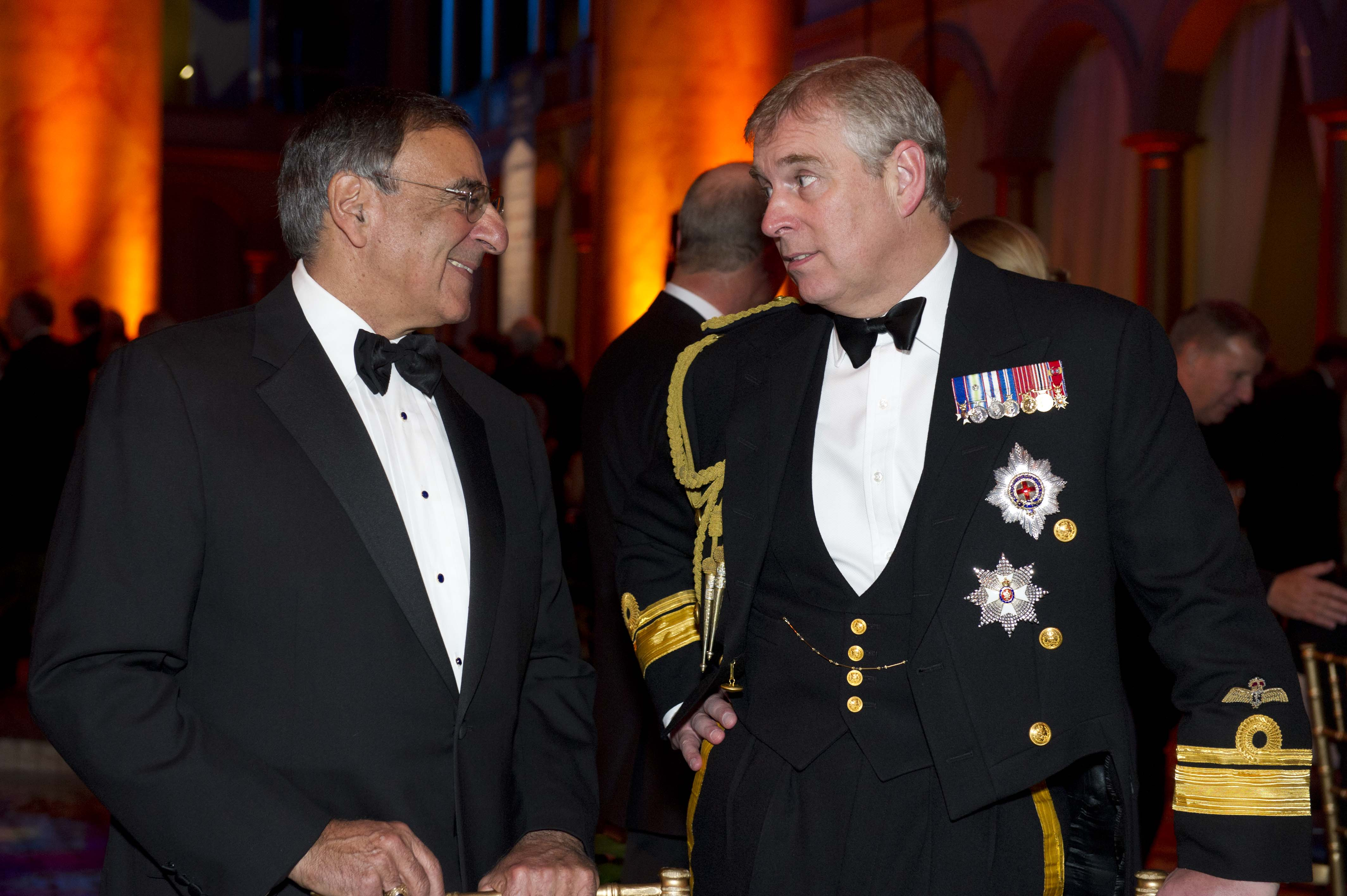 Prince Andrew and Leon E. Panetta